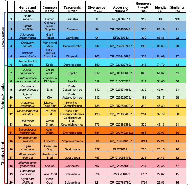 Closely related, moderately related, and distantly related orthologs of CXorf38 X1